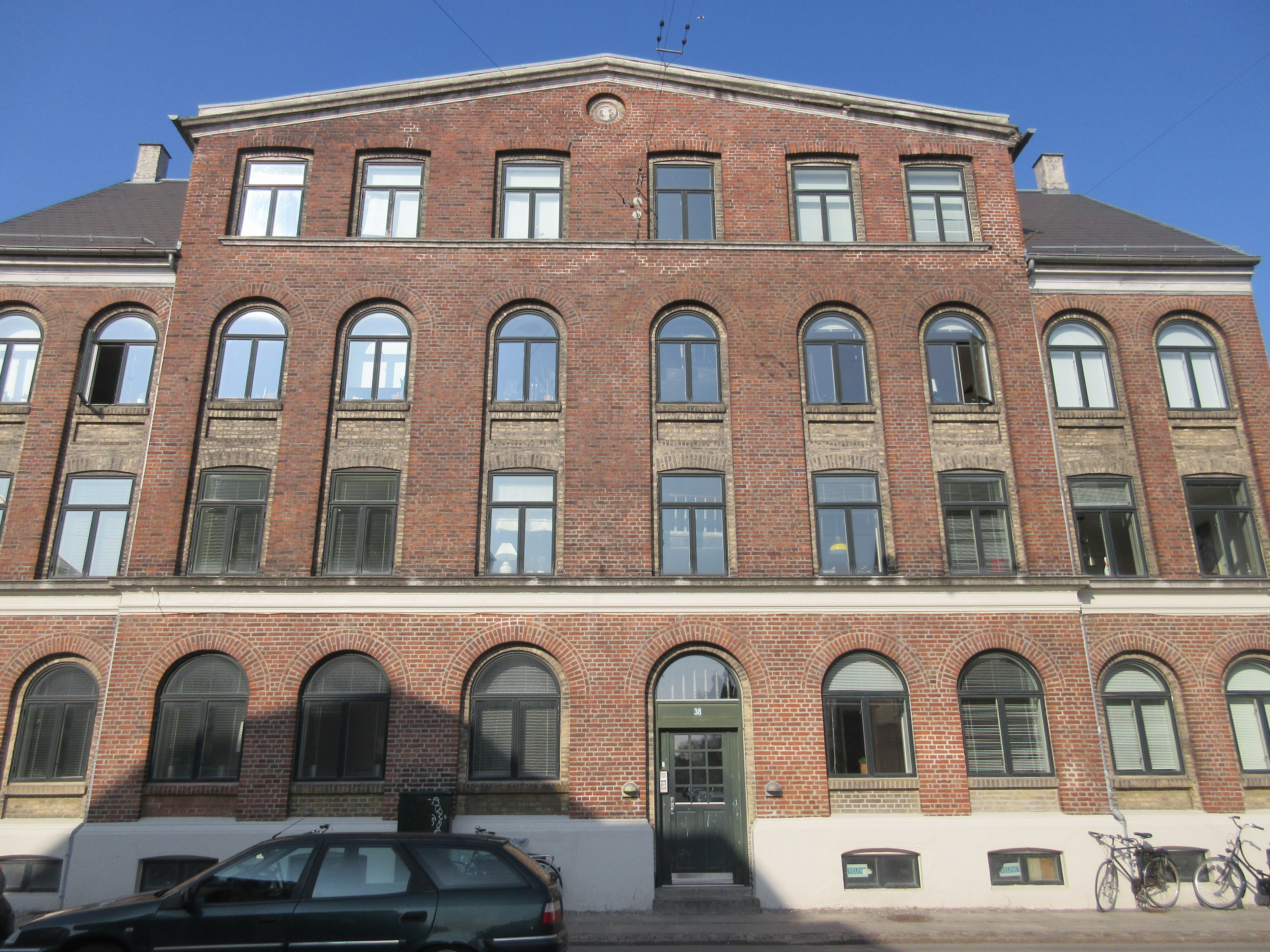 Danasvej 38 in Frederiksberg, Denmark